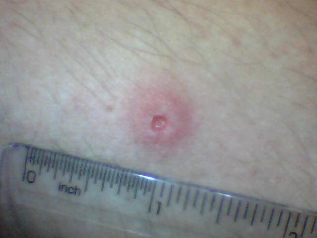 Montenegro's reaction: reactive test for leishmaniasis. Image obtained after 144 hours of injection. To more informations, see related pictures taken after 48 h and 72 h after inoculation.